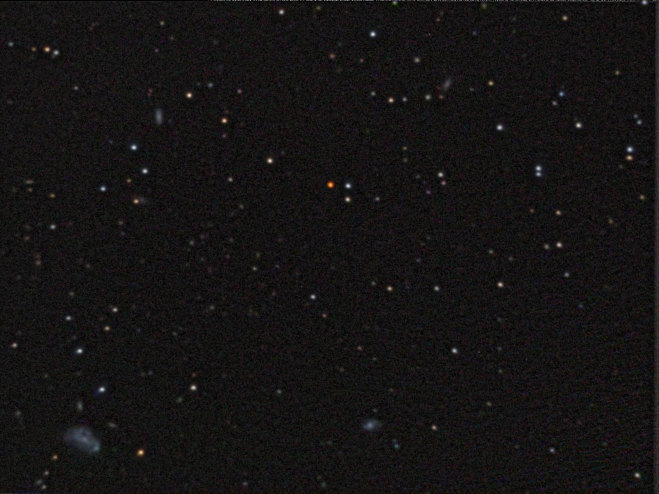 This picture of Wolf 359 was taken with an astrocamera of 1.040 mm focal distance. The red dwarf is well discernible a little bit above the center of the image. It shifts toward "four o'clock" each year by bare five arcseconds. This means that the star's position in this picture from 21st of March, 2009, has already not any more been accurate in 2010. - The picture spans over 16 × 12 arc minutes. One pixel is equivalent to approximately 1.5 arcseconds. North is upward, east to the right.